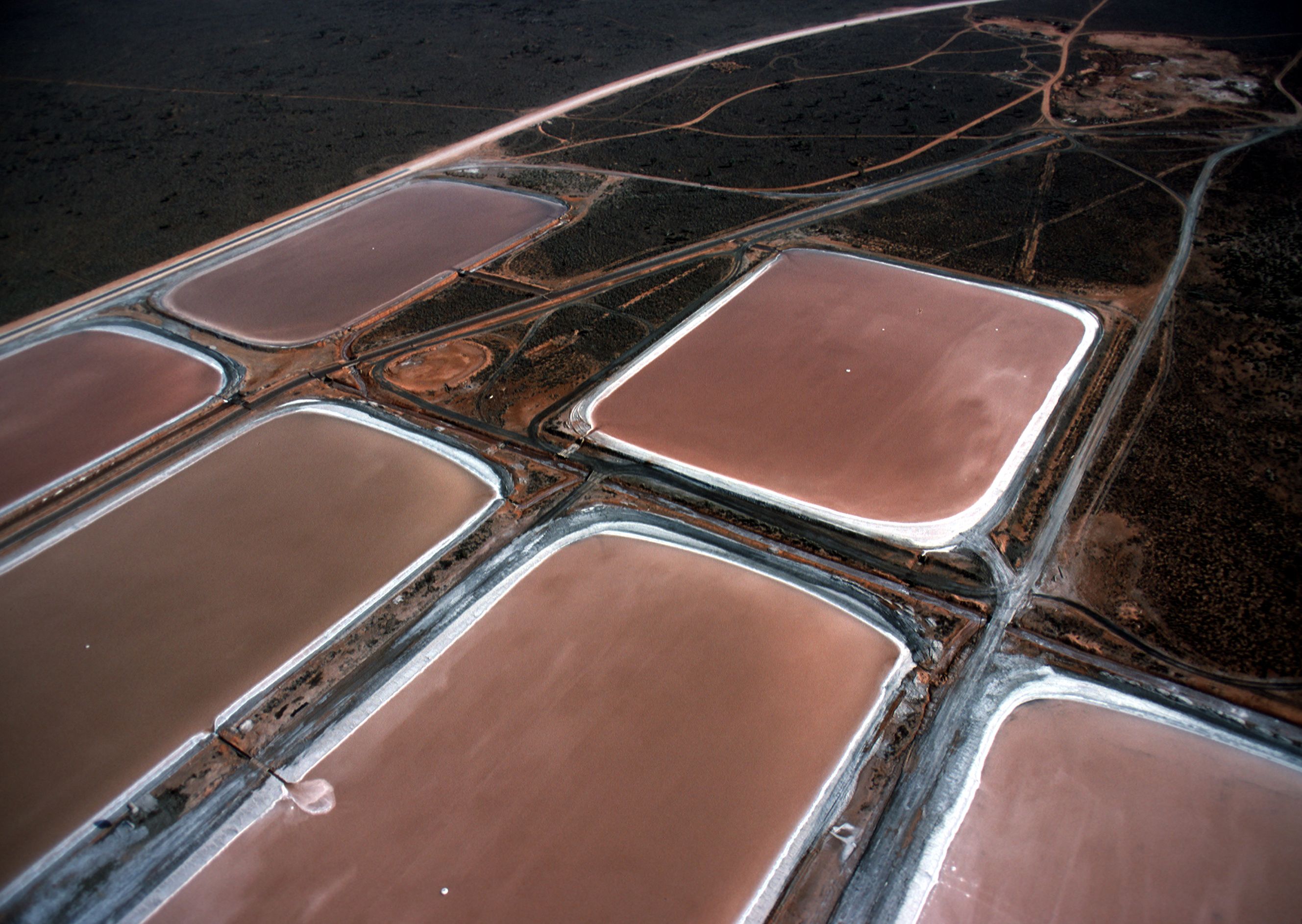 Algae farm ponds for production of beta-carotin, Whyalla, South Australia.